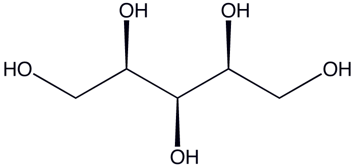 Chemistry - structure of xylitol